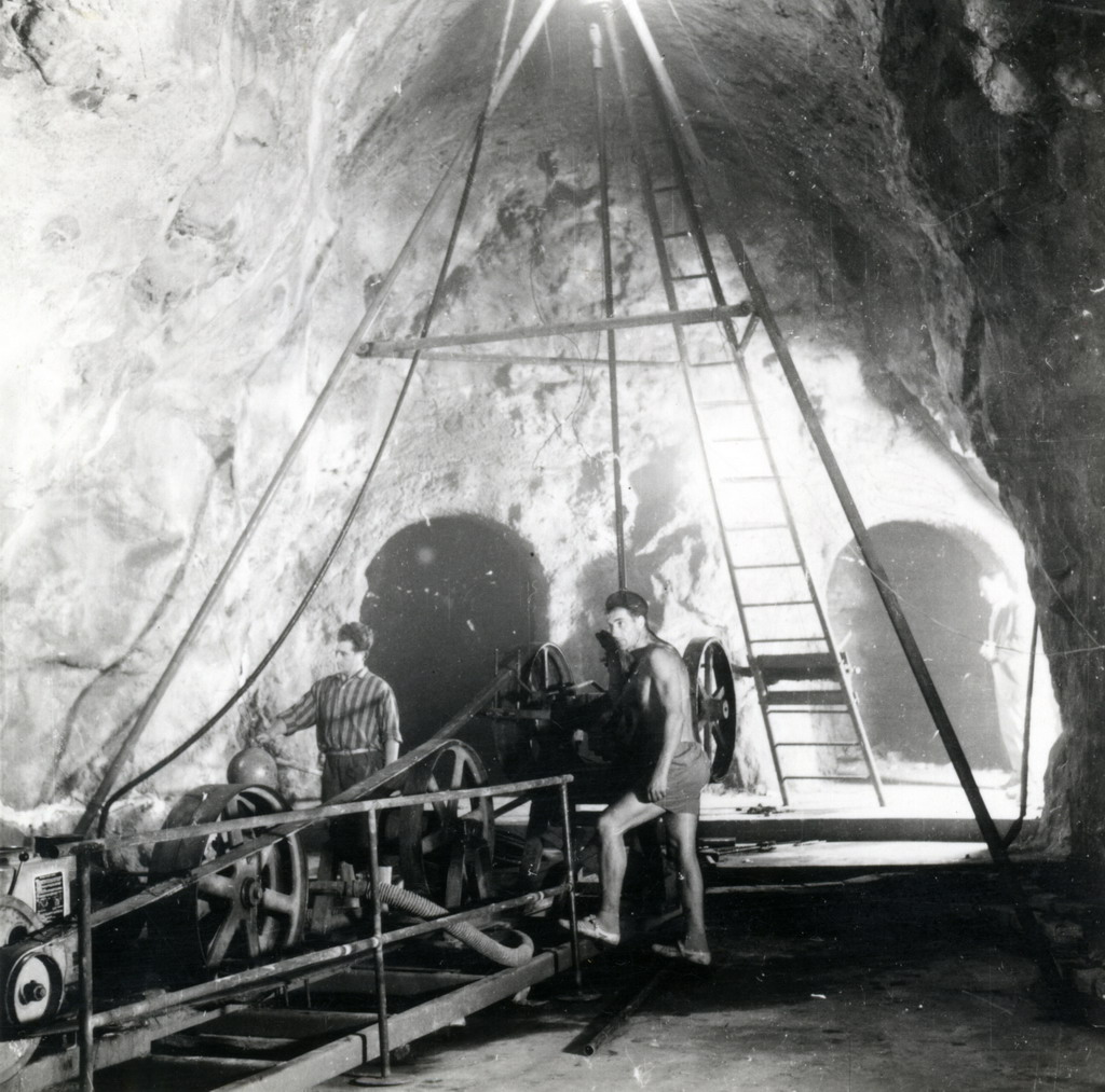 Deep drilling in Gellért Hill Cave